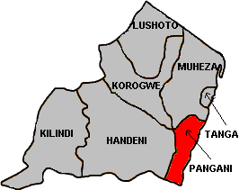 Created by Andrew Coe